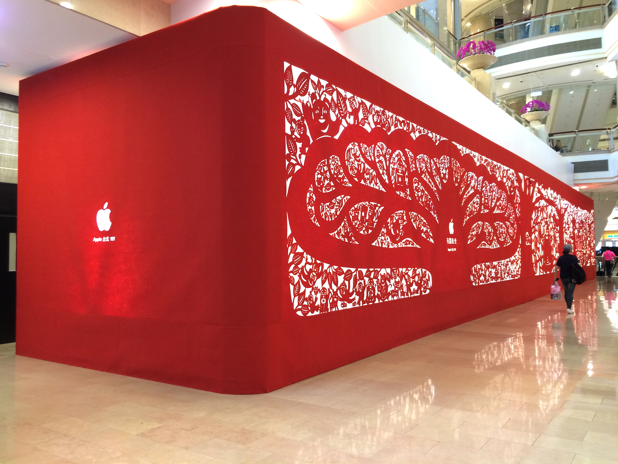 First Apple Store in Taipei, Taiwan - located in Taipei 101 Mall - before opening